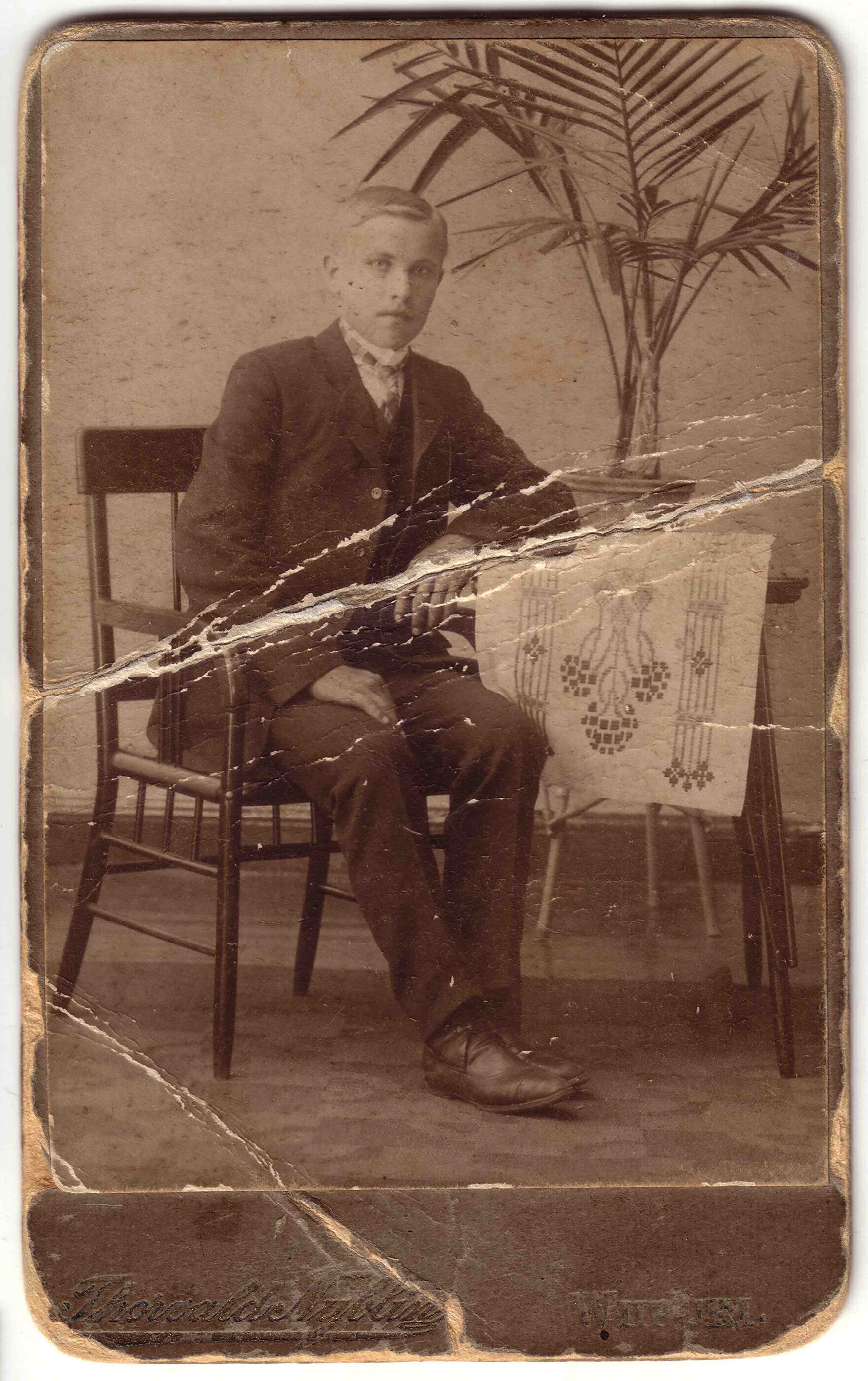 Ernst Fredrik Sohn, Finnish shipowner from Uuras (Vysotsk) in Vyborg. Photo taken probably between 1906 and 1910 by Thorvald Nyblin´s photography studio in Vyborg.